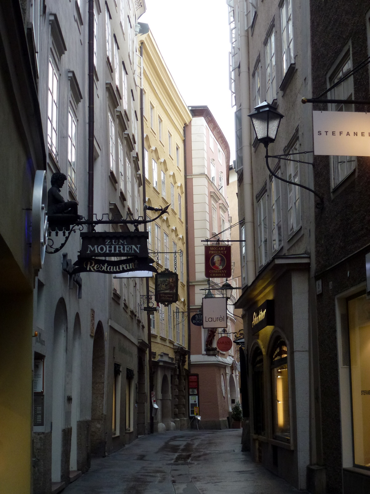 Judengasse in Salzburg